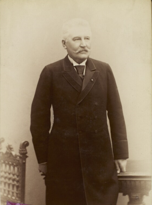 Ludvig Anton Christian Augustinus (21 January 1832 - 10 March 1911), Danish tobacco manufacturer